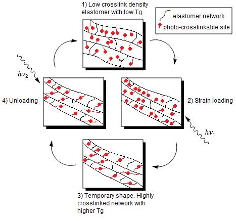 Schematic of microscopic perspective of reversible LASMP cross-linking.